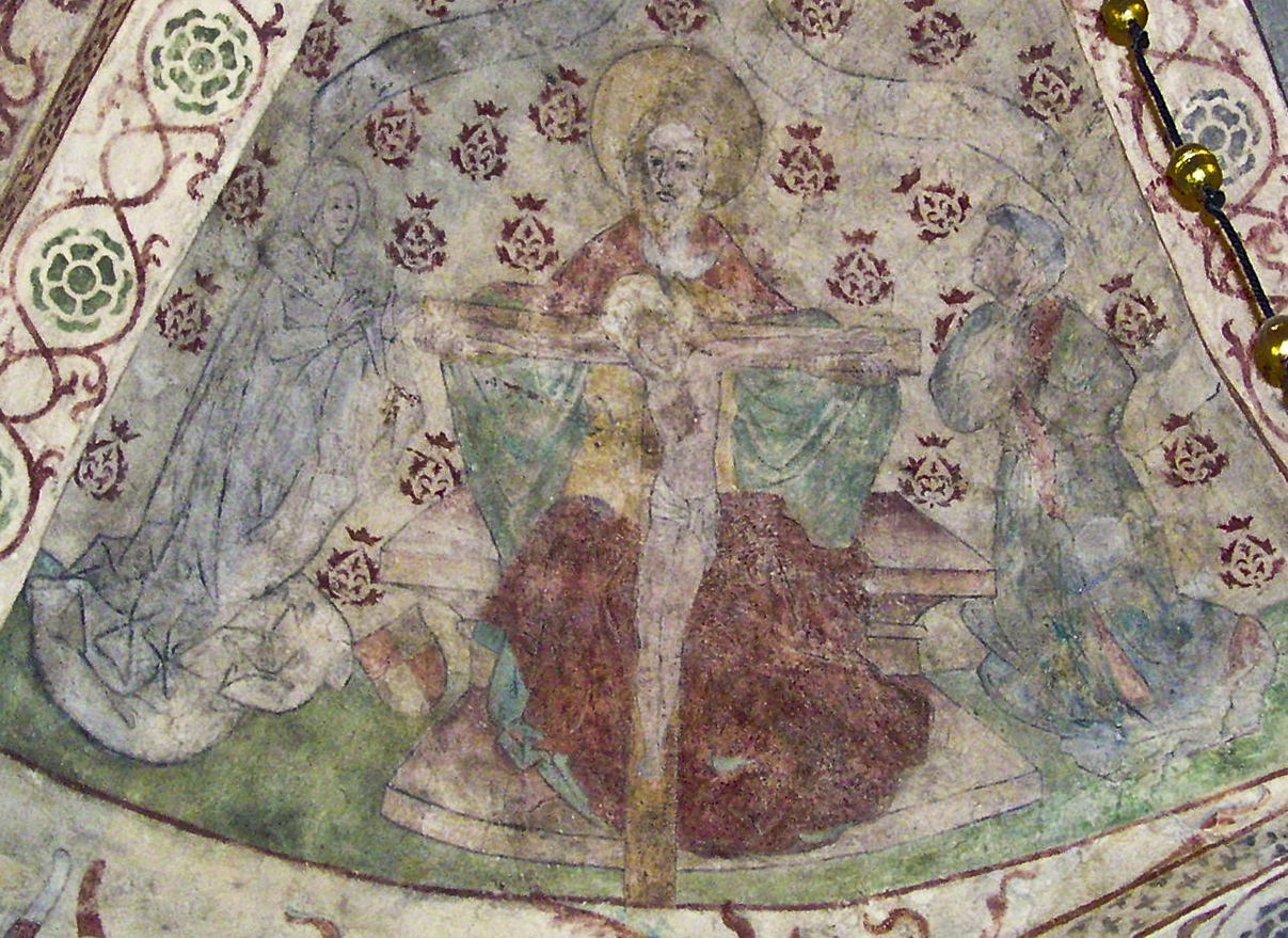 Vault paintings by Albertus Pictor, i Ösmo church. Nynäshamn, Sweden.